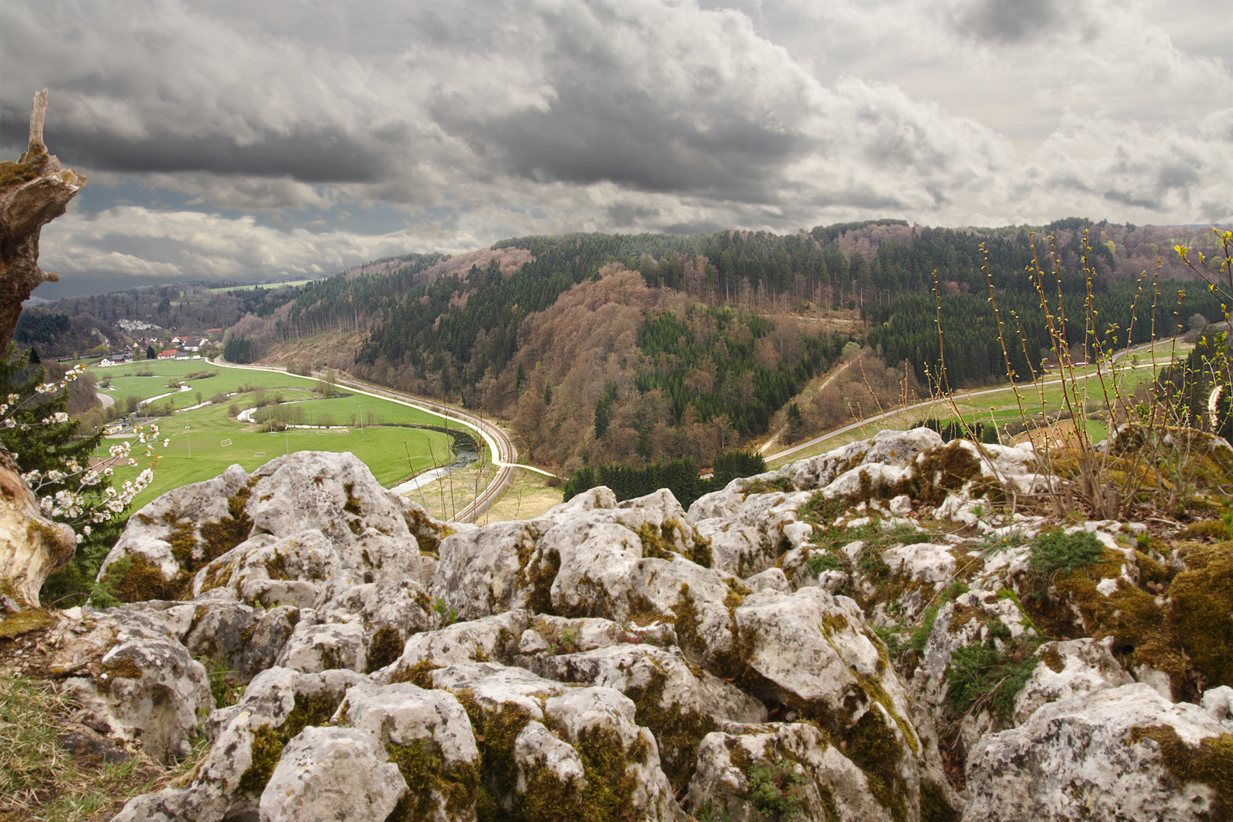 "Enzenbarn (Schlafender Ritter)". High rock formation of massive limestone, Late Jurassic, where river Fehla flows into the Lauchert, Swabian Alb. The nude rock top of exposed limestone is a kind of limestone pavement. Background: meandering Lauchert and village "Hermentingen", a community of Veringenstadt.